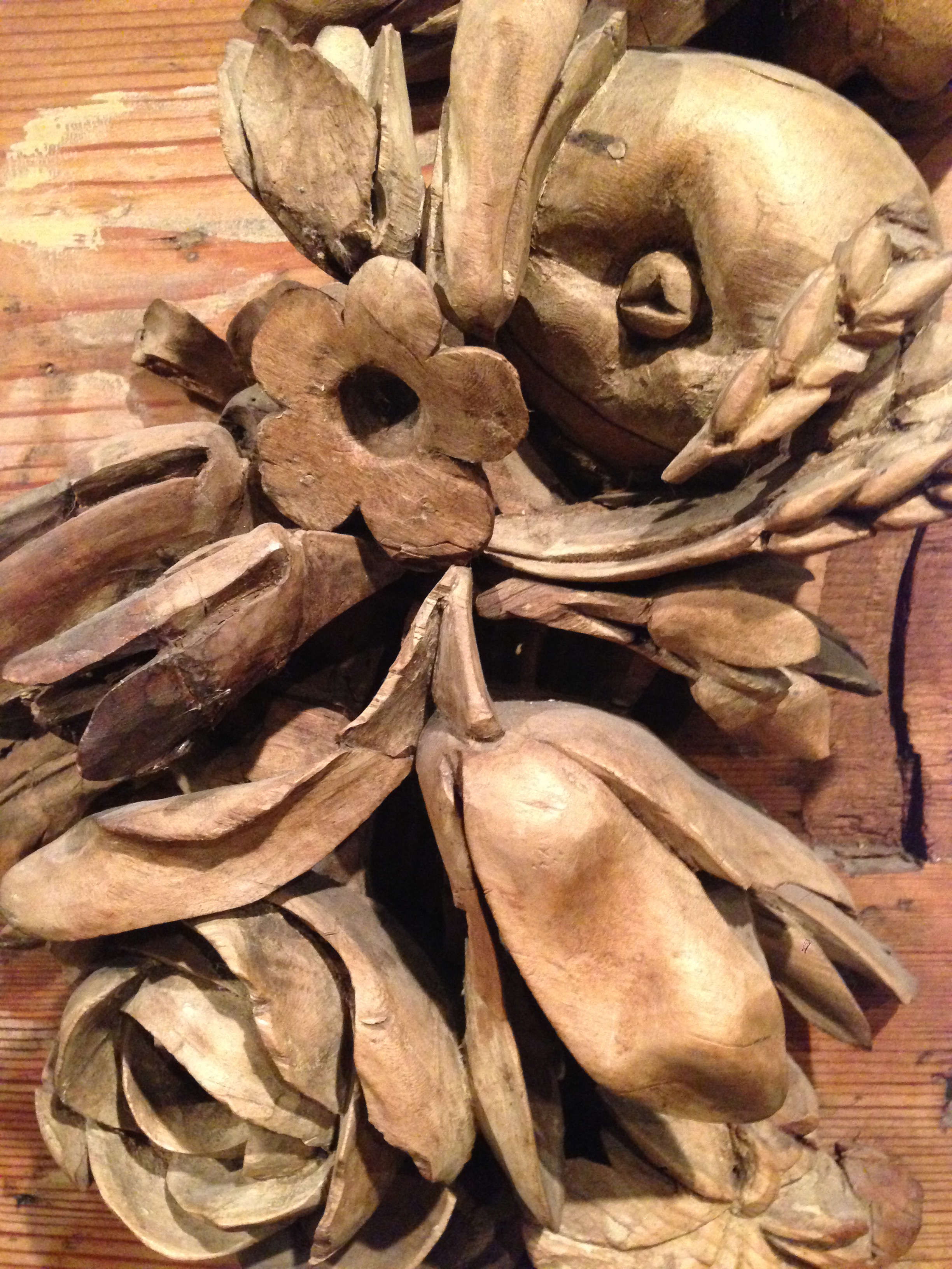 Detail of a carved wooden surround by Grinling Gibbons 1676-1680 for Cassiobury House, Watford, England.